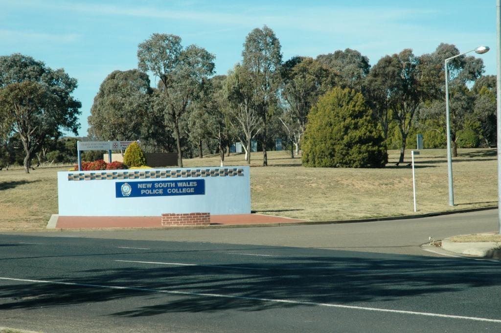 New South Wales Police College gate.